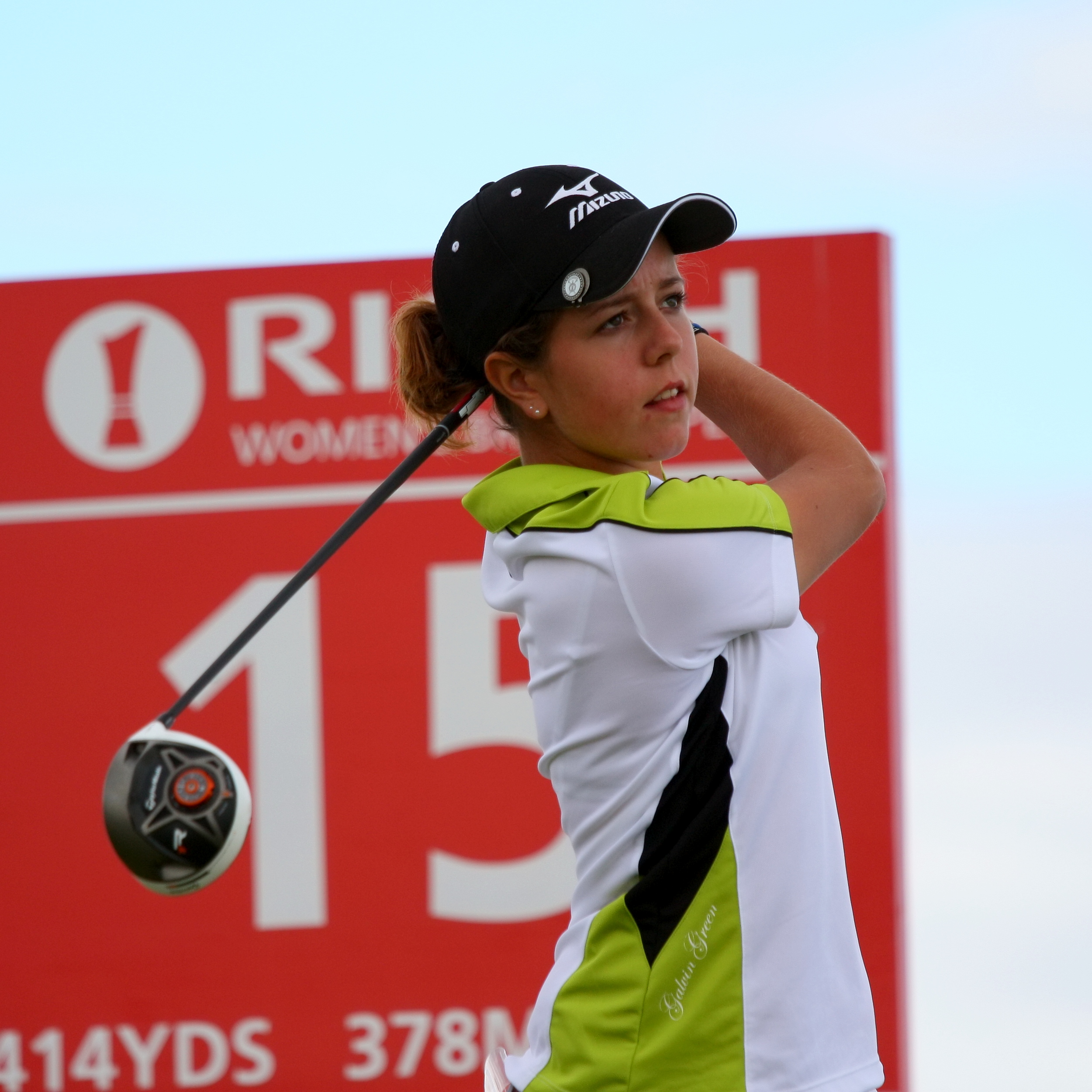 ST ANDREWS, SCOTLAND - JULY 31: Georgia Hall of England tees off on the 15th tee during last practice round of 2013 Ricoh Women's British Open held at St Andrews Old Course on July 31st, 2013 in St Andrews, Scotland. (Photo by Wojciech Migda)